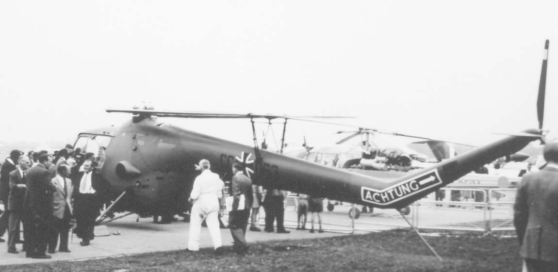 Bristol Sycamore Mk.14 CC+063 for West German air force, at the 1958 SBAC Show at Farnborough, 13 September 1958 with rotor blades folded